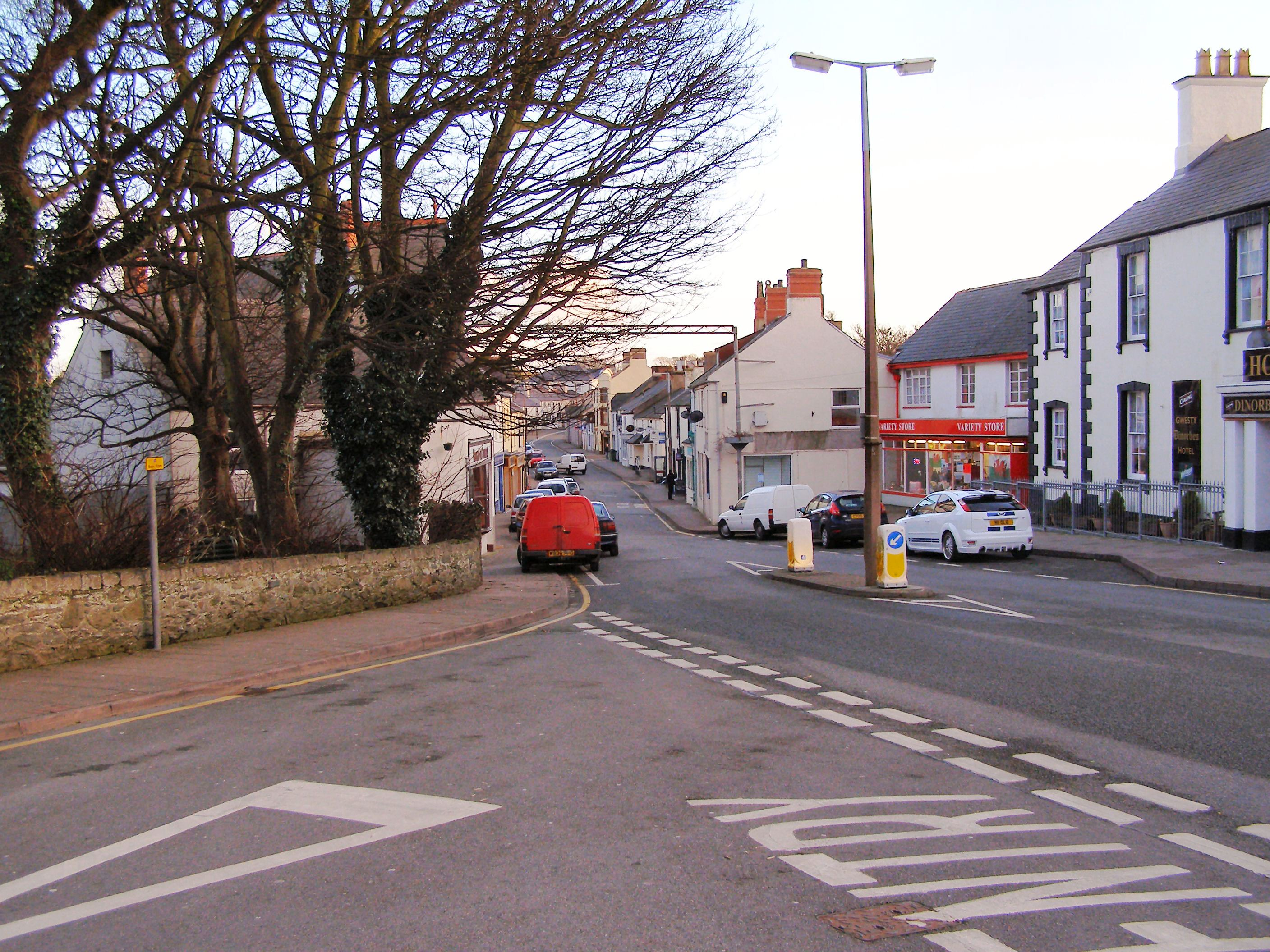 Amlwch, Queen Street